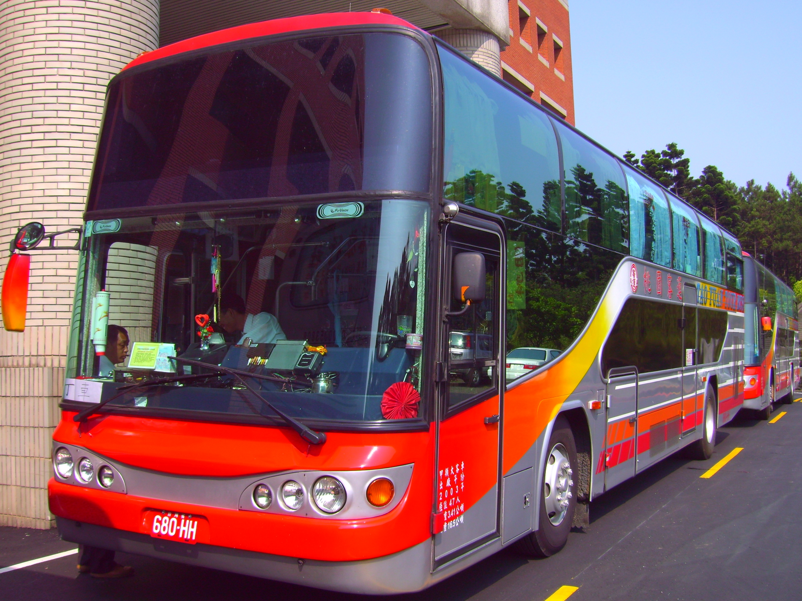 Taoyuan Bus Co., Ltd. tour bus uses HINO LRM2PSA structure, and is also used for freeway or highway route.